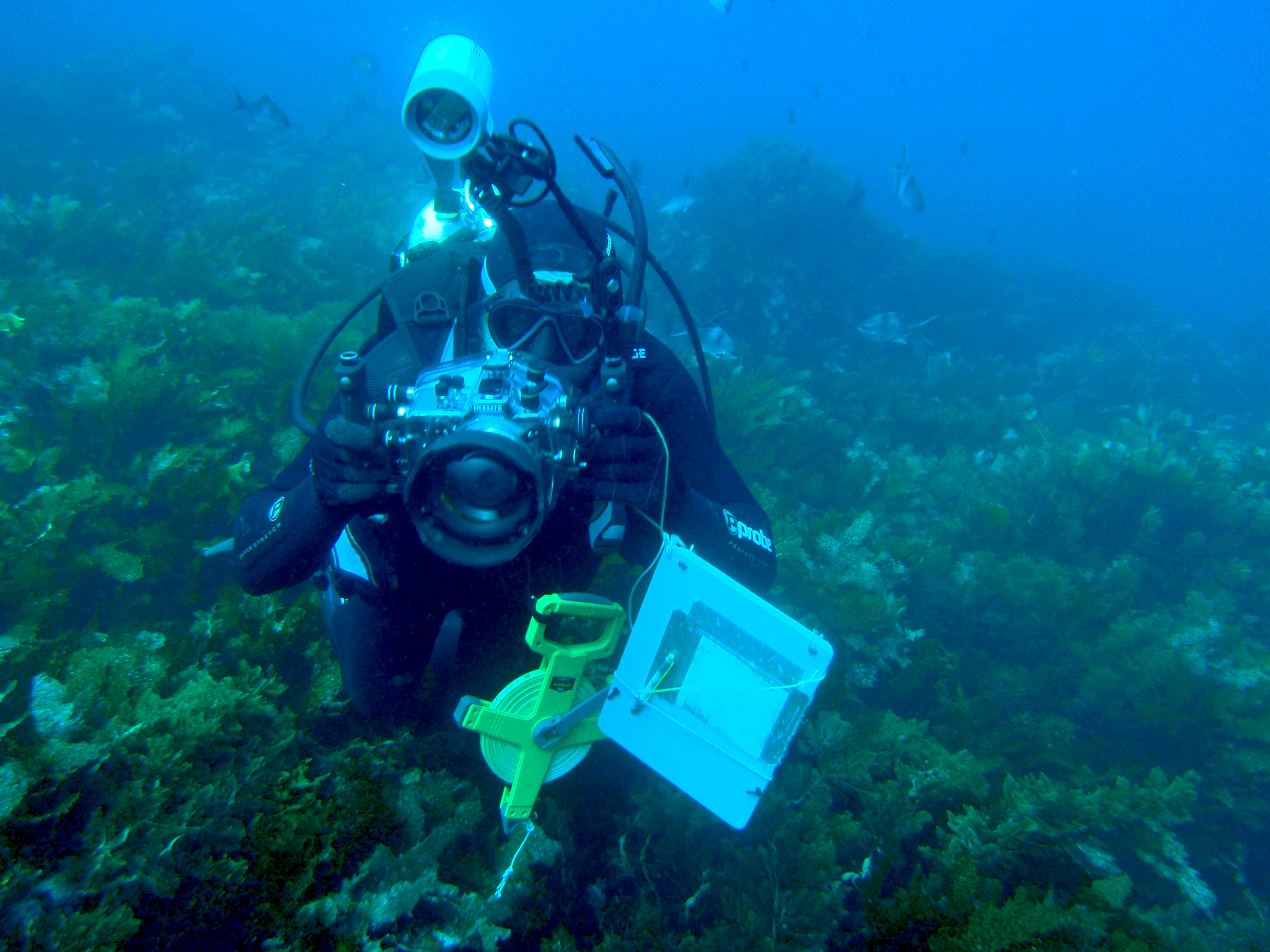 Graham Edgar on RLS transect at the north of Pearson Island, South Australia on the Reef Dragon expedition.